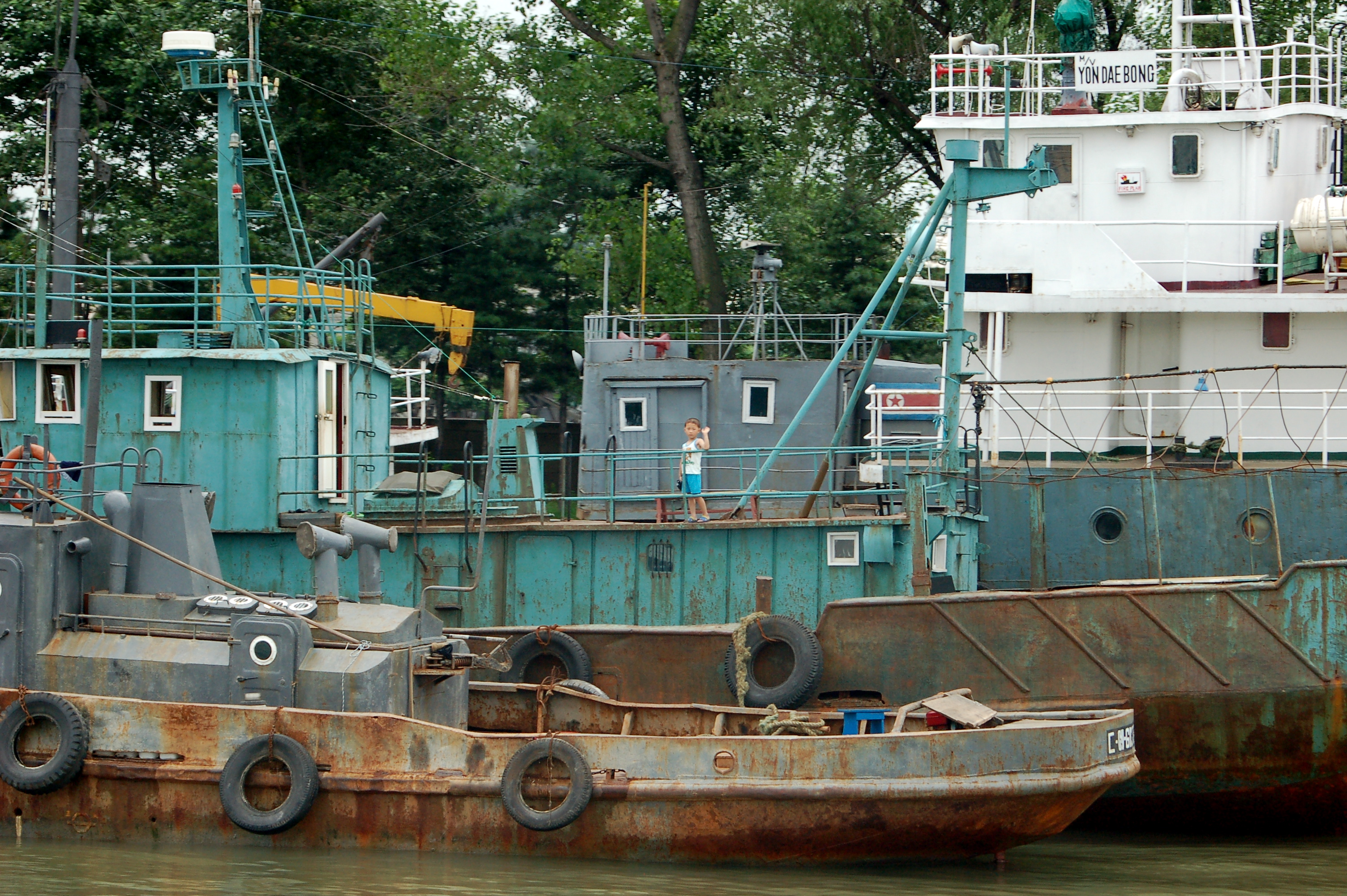 North Korean boy in Sinŭiju